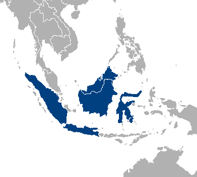 A map of Greater Sunda Islands This locator map image could be re-created using vector graphics as an SVG file. This has several advantages; see Commons:Media for cleanup for more information. If an SVG form of this image is available, please upload it and afterwards replace this template with vector version available|new image name . It is recommended to name the SVG file "Greater sunda islands.svg" - then the template Vector version available (or Vva) does not need the new image name parameter.